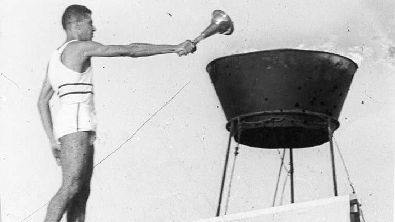 Yoseph Lahav, long time Maccabiah athlete, was chosen as a champion athlete to light the cauldron at the Opening ceremony at the 6th Maccabiah. Lahav also participated in the 1500 meter and 5000 meter races, and won second place in both.